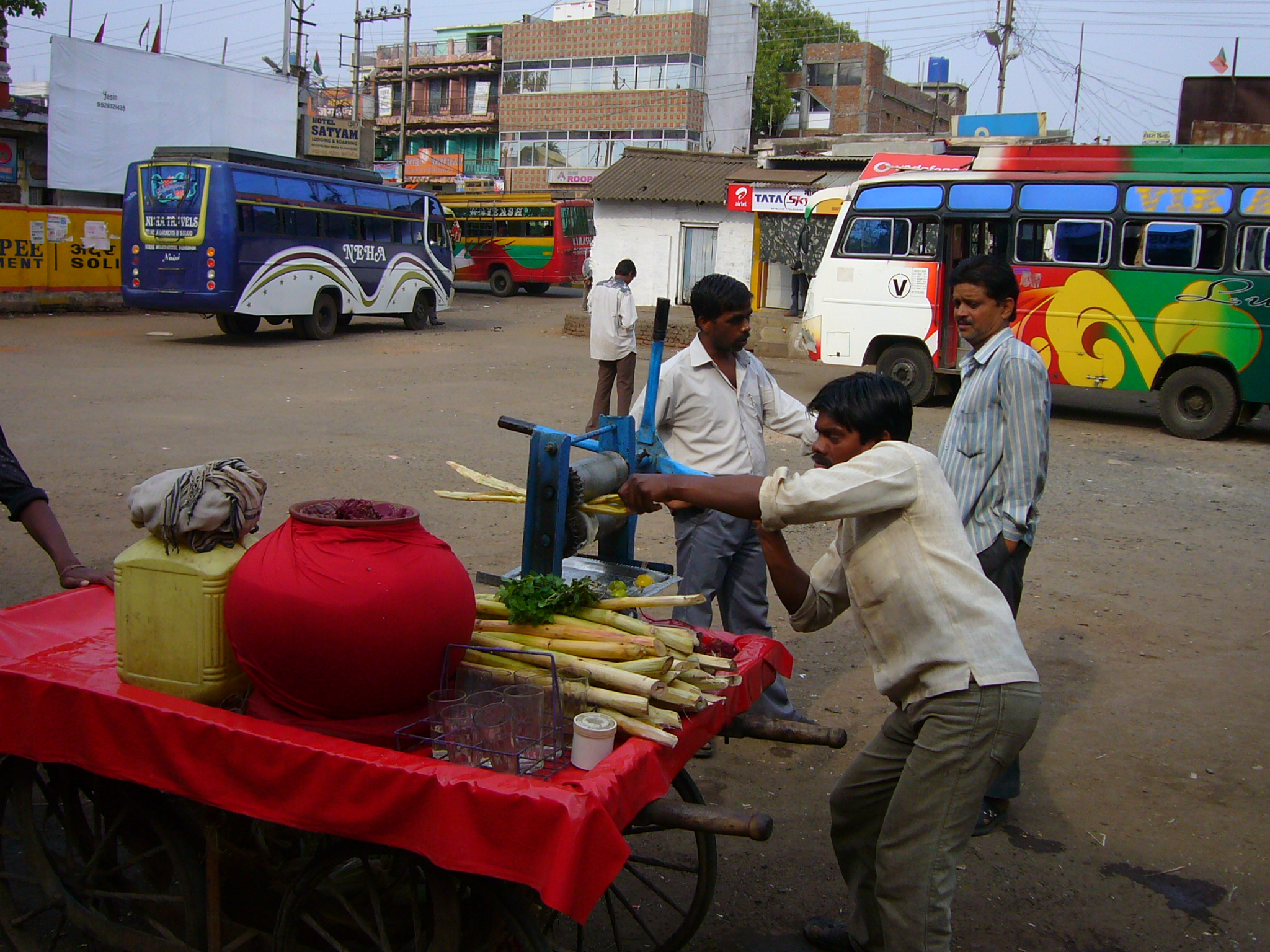 Bus station of the indian city Mandla